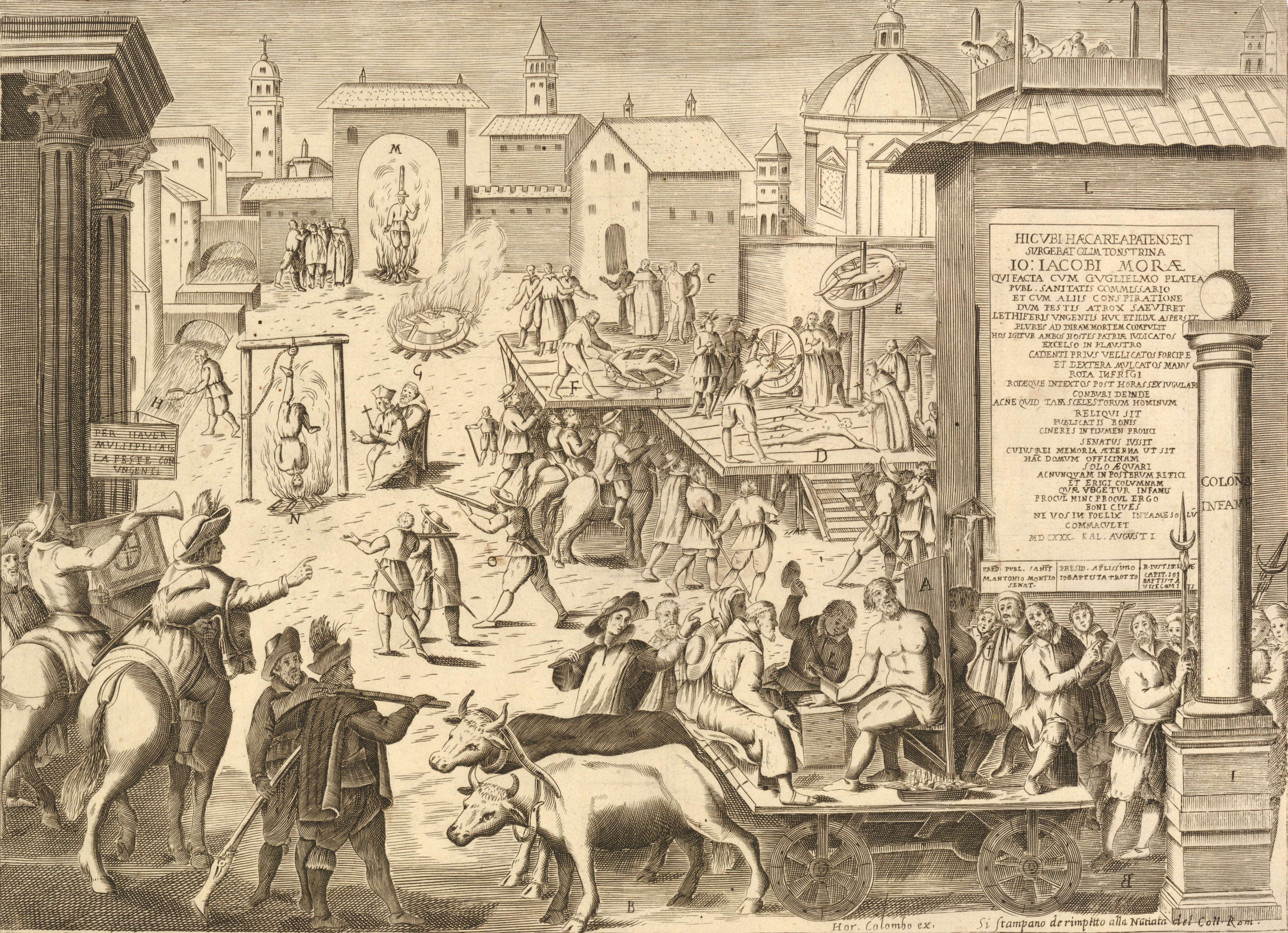 Square of justice in Milan during the plague of 1630, showing the torture and execution of G. Piazza and G.G. Mora, who were accused of increasing the plague.